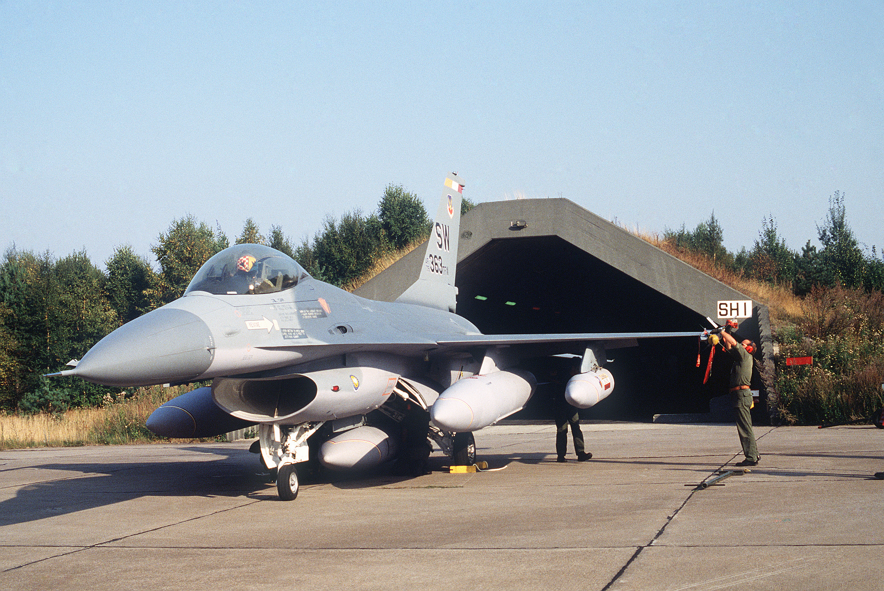 Ground crewmen of the 363rd Tactical Fighter Wing perform a post-flight check on an F-16 Fighting Falcon aircraft during Exercise Coronet Gauntlet '83 at Rygge Air Station, Norway